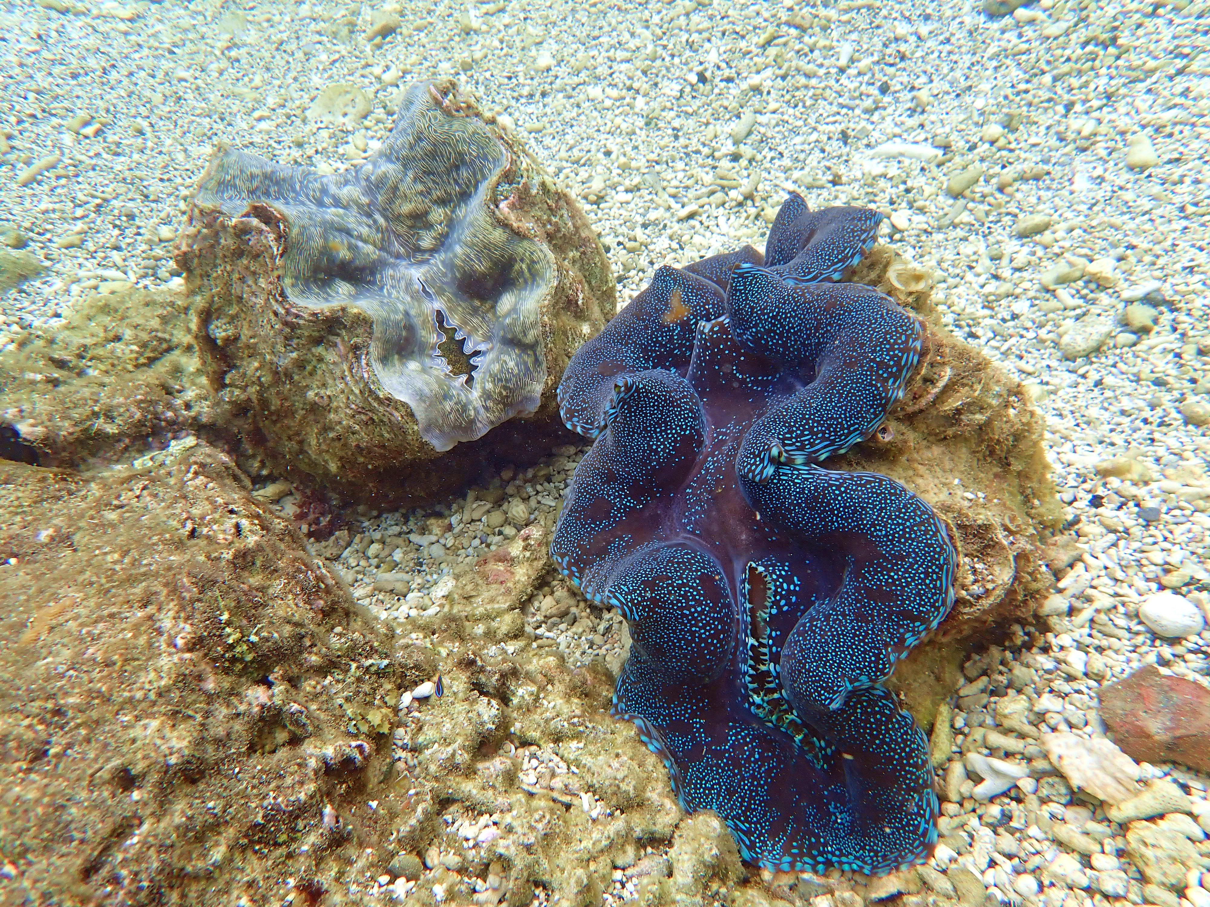 Two "giant clams (family Tridacnidae), in Vanuatu : Hippopus hippopus & Tridacna squamosa.